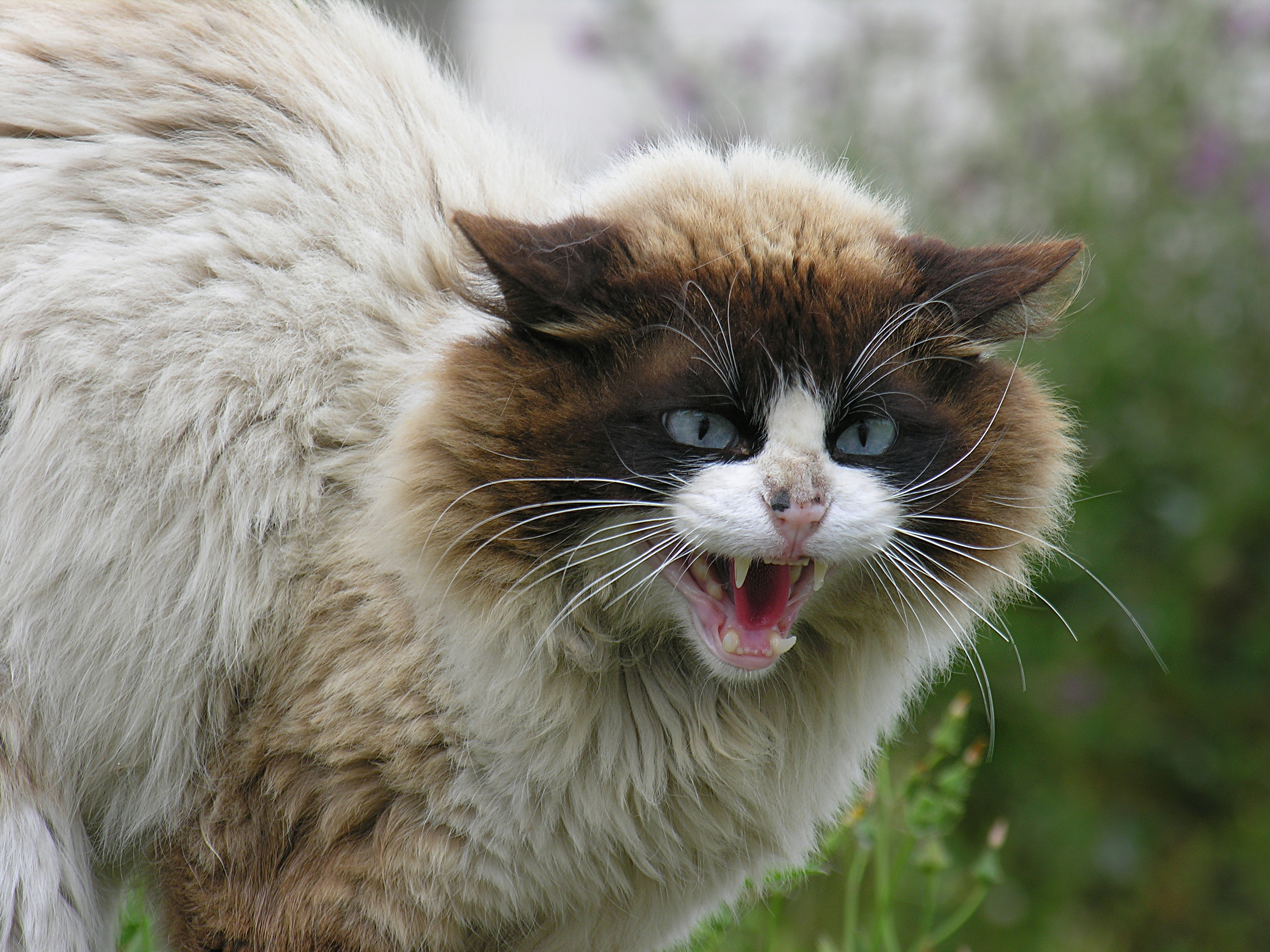 Cat in Barraña, Boiro, Galicia